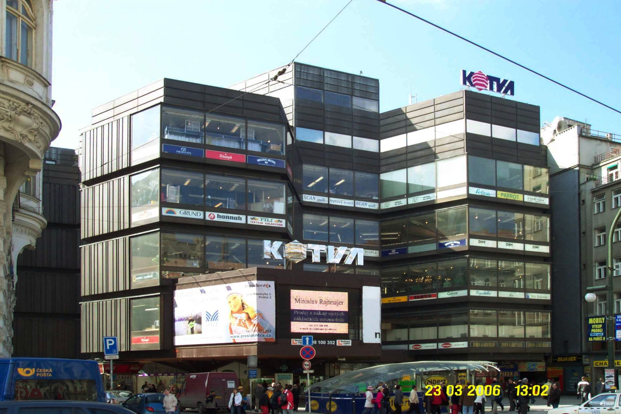 Prague, Old Town, Kotva (= Anchor) department store on Republic Square.